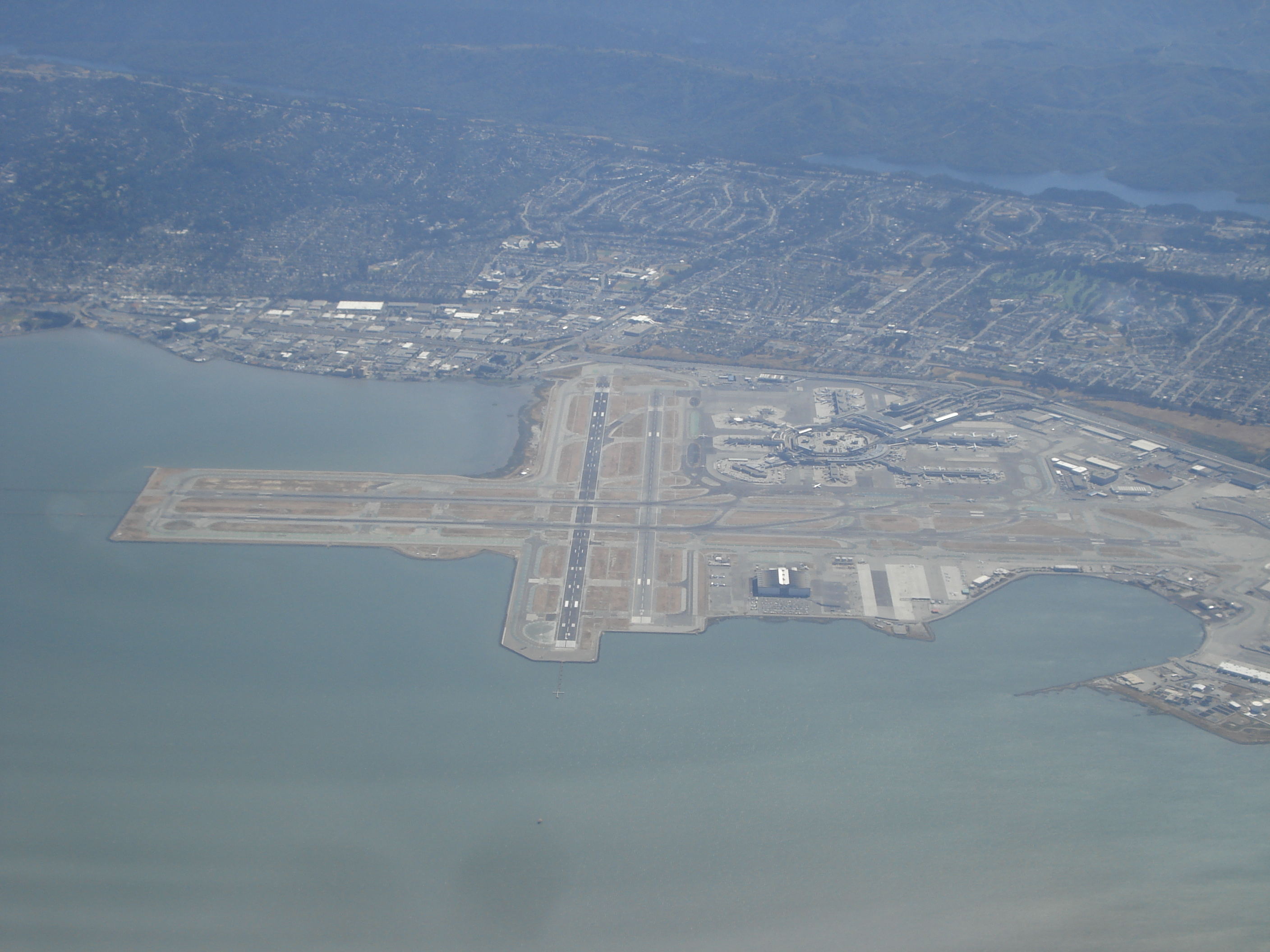 San Francisco International Airport from the air.